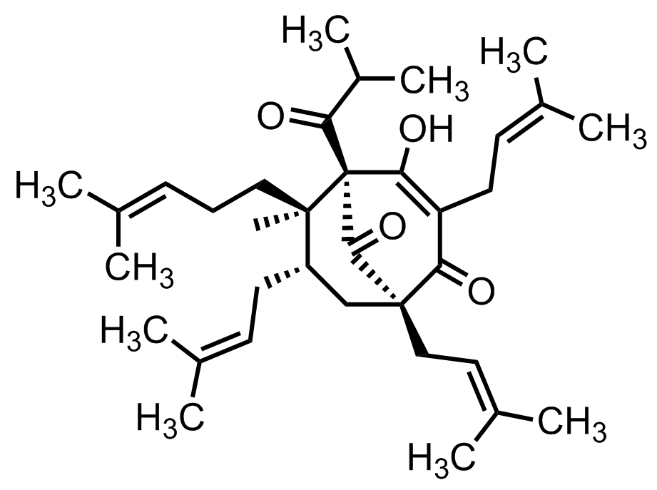 A model of Hyperforin. Absolute Steriochemistry assigned from Phytochemistry 67 (2006) 2201–2207[1]